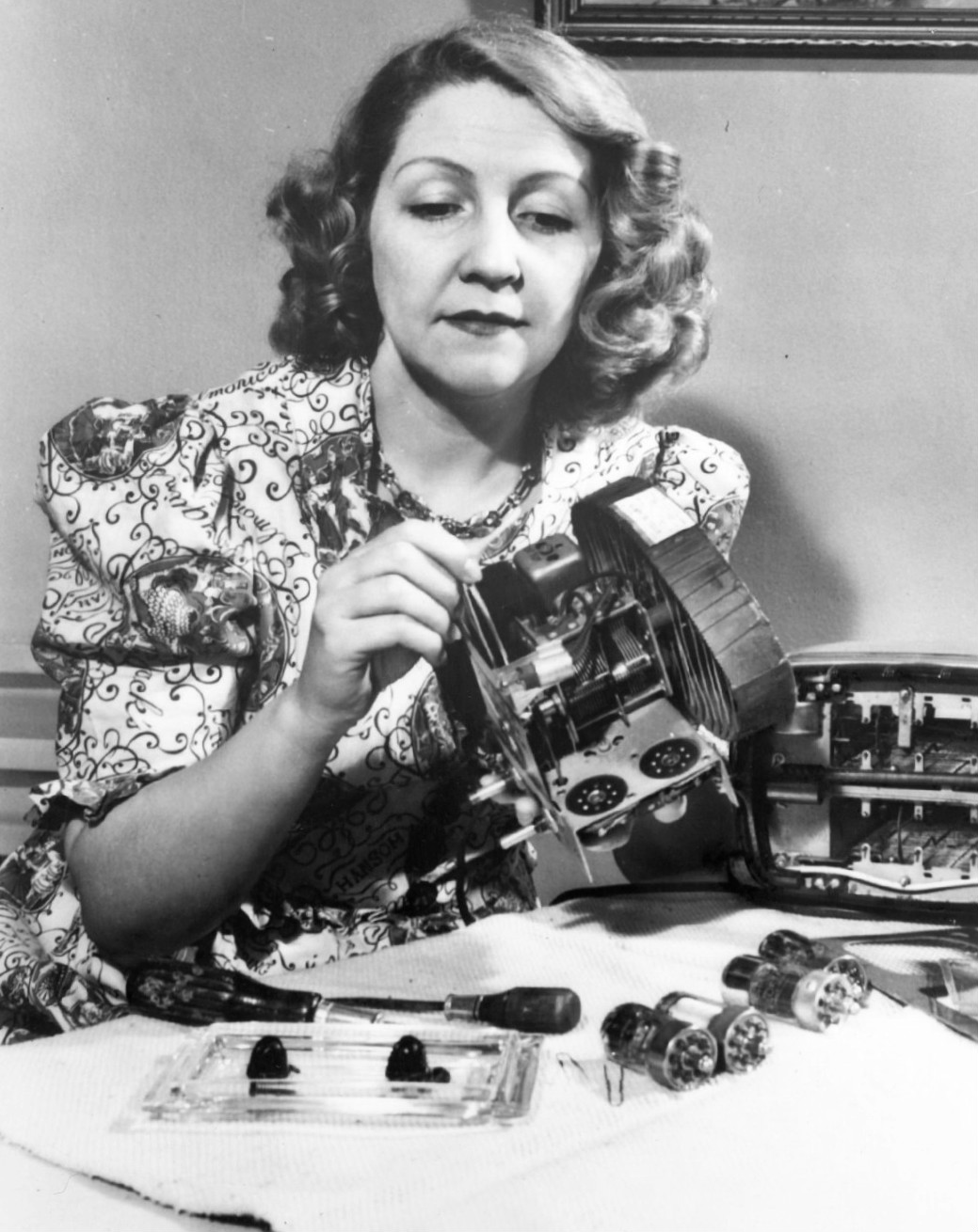 Photo of Margaret Daum from her regular appearances on The American Album of Familiar Music.